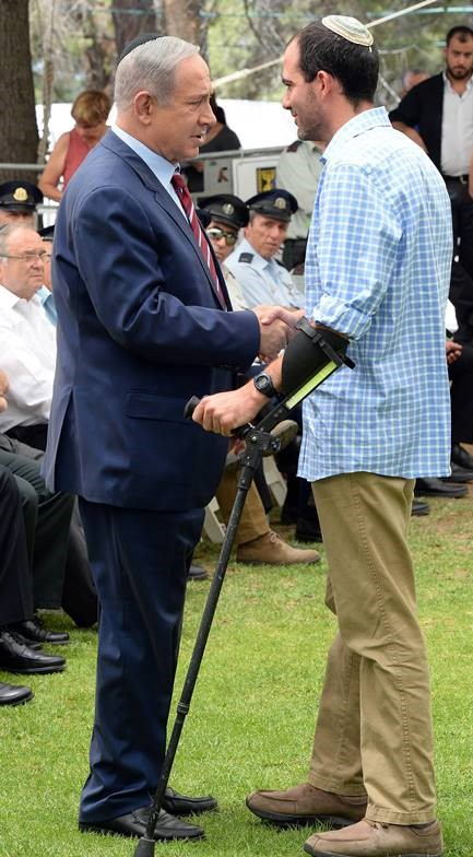 Prime Minister Benjamin Netanyahu and Dr. Asael Lubotzky at the ceremony marking the 10th anniversary of the Second Lebanon War. Lubotzky was severely wounded in Lebanon and became a physician and writer.